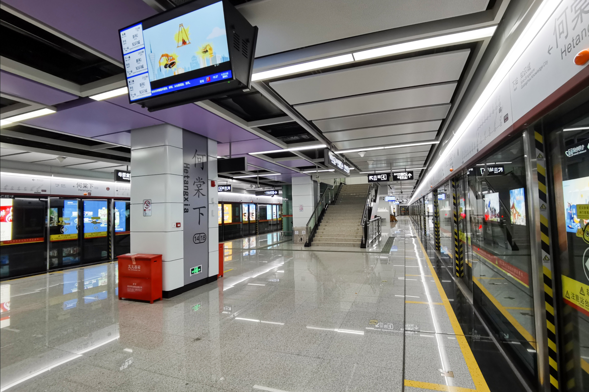 广州地铁何棠下站